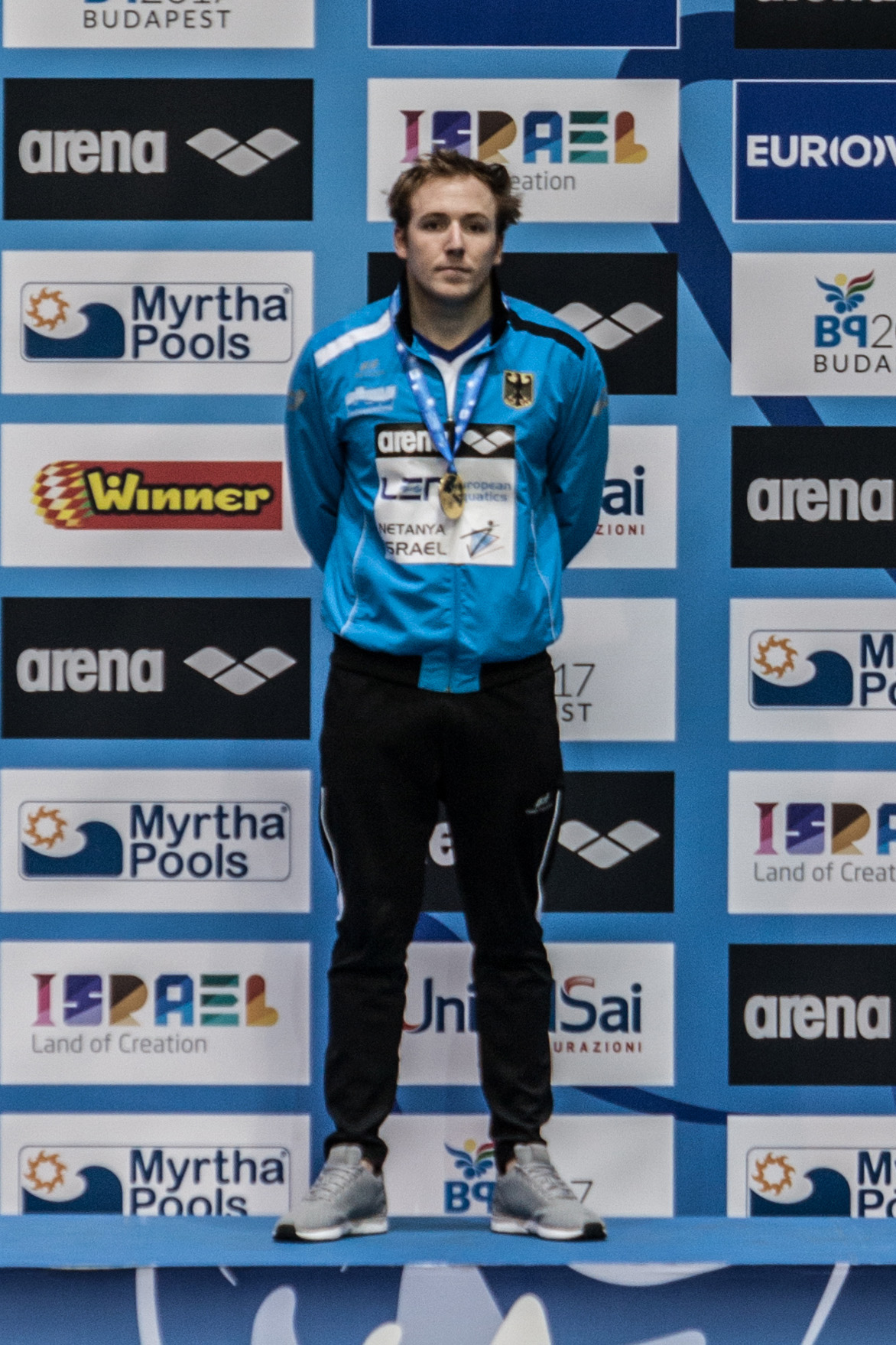 Swimmer Marco Koch with the gold medal he won at the 200m breaststroke, 2015 European Short Course Swimming Championships in Netanya